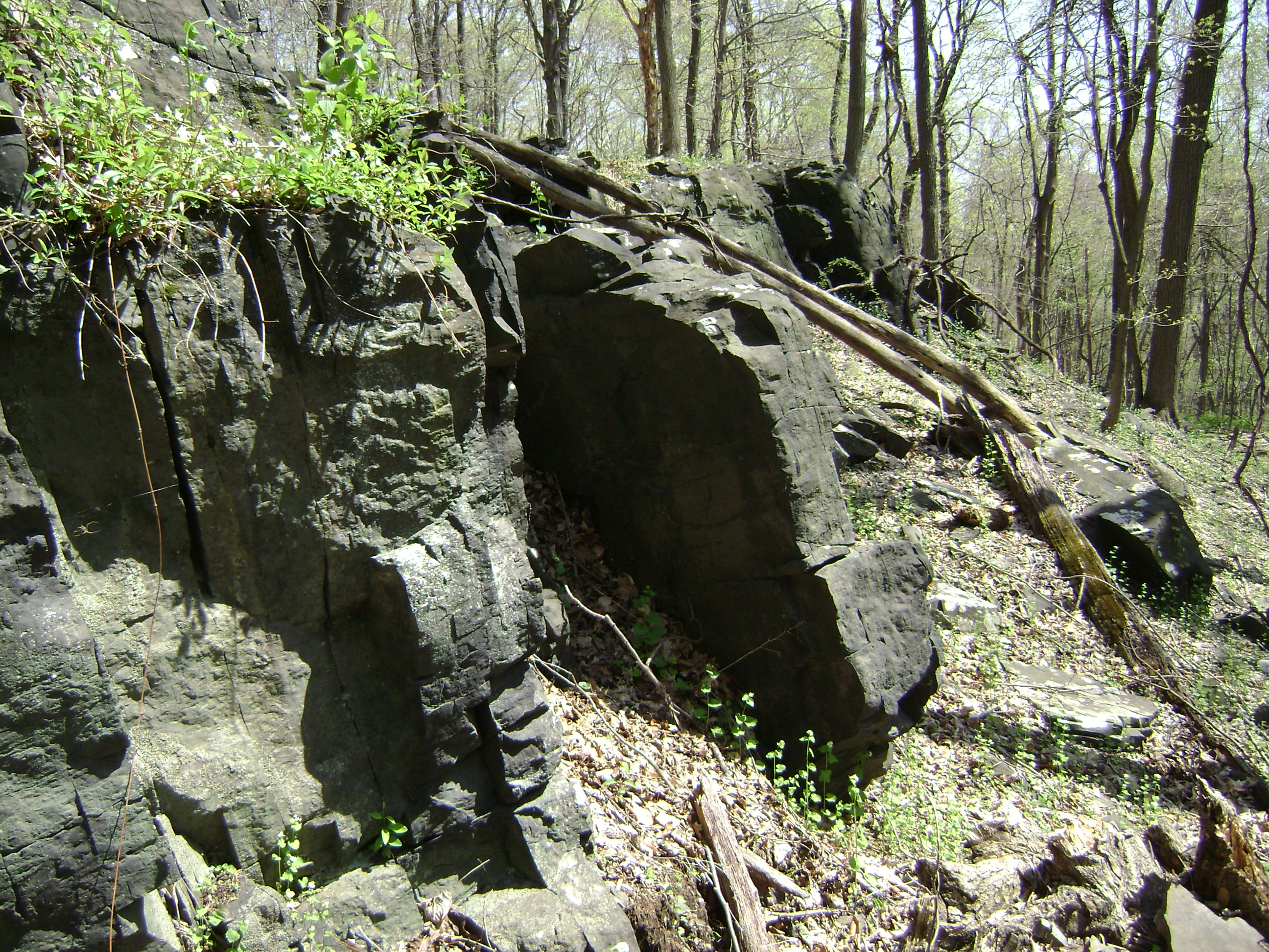 A ledge composed of argillite and argillite derived hornfels emerges along the 380ft (115m) contour of— located near Hillsborough Township, New Jersey. Typical argillite in this region is a grayish color, while hornfels appears blackish and more fine grained due to the effects of contact metamorphism.